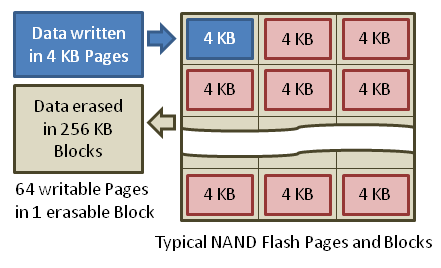 I, § Music Sorter § (talk) 04:56, 18 June 2010 (UTC), created and uploaded this drawing into Wikipedia under the Creative Commons Attribution-ShareAlike 3.0 License. This drawing illustrates the difference between data written to NAND Flash memory in 4 KB pages and data erased in 256 KB blocks.